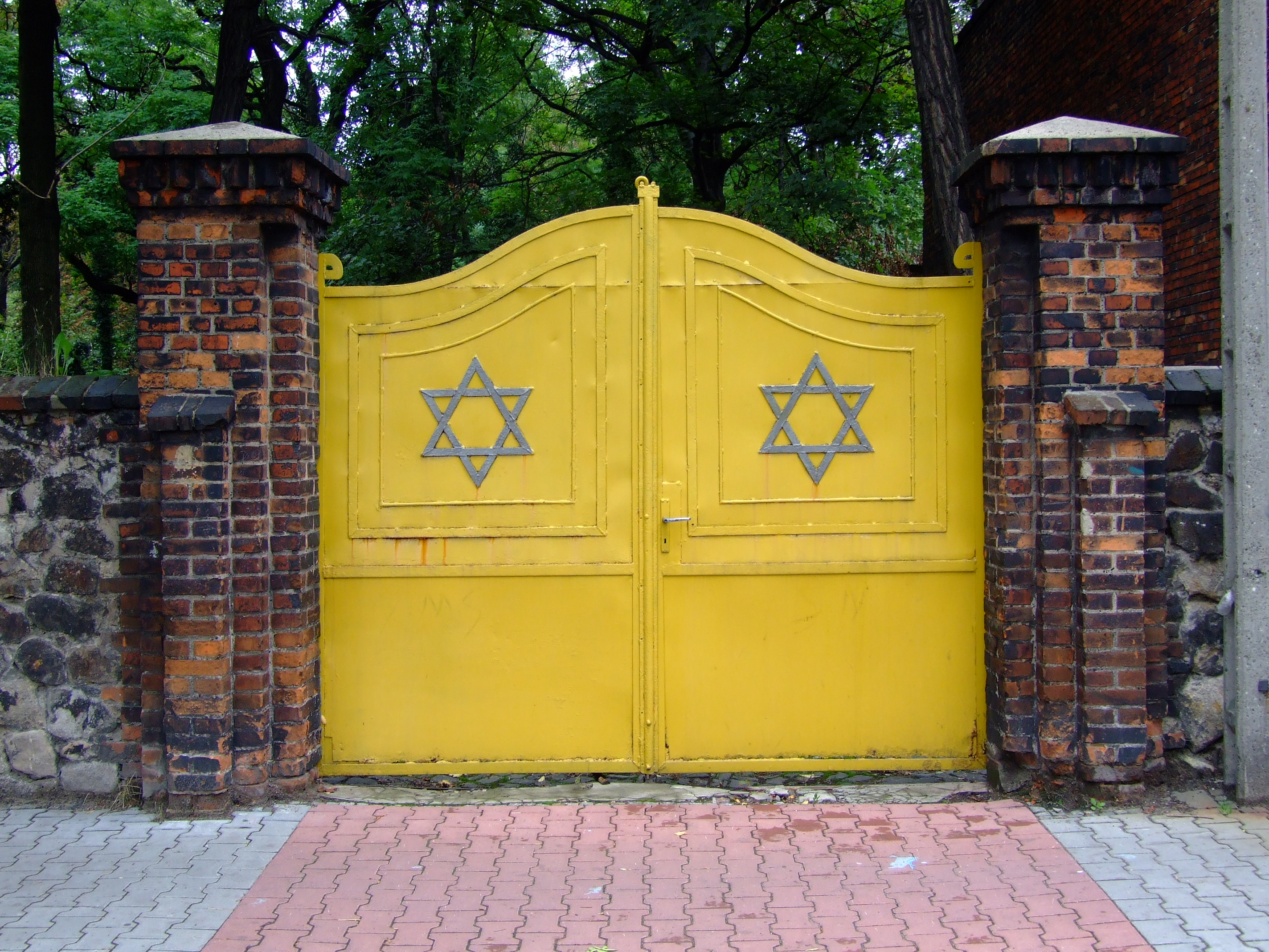 Jewish cemetery in Zabrze/Poland